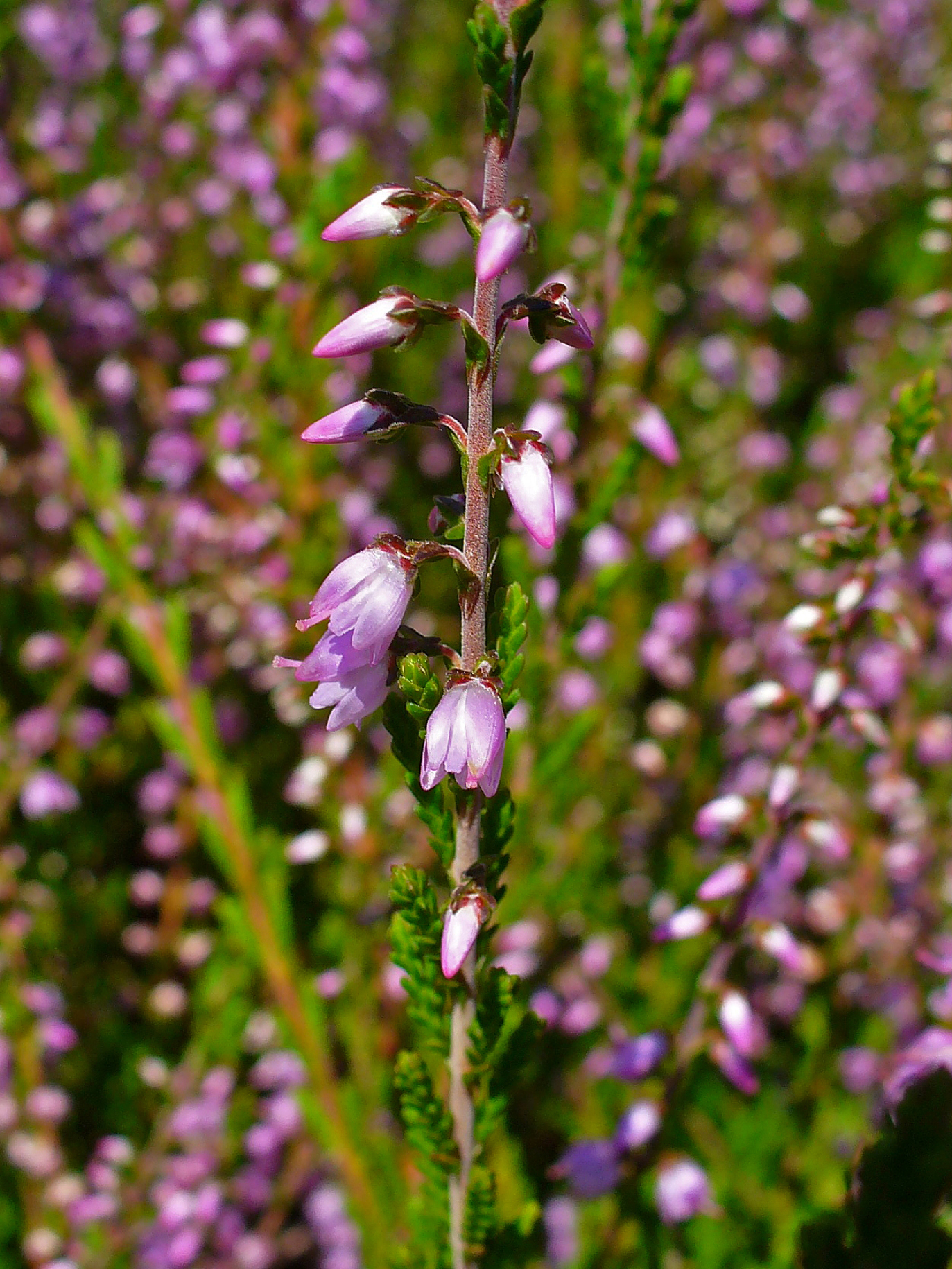 Calluna vulgaris, Ericaceae, Common Heather, Ling, inflorescence; Botanical Garden KIT, Karlsruhe, Germany. The fresh aerial parts of the blooming plants are used in homeopathy as remedy: Erica (Eric.)